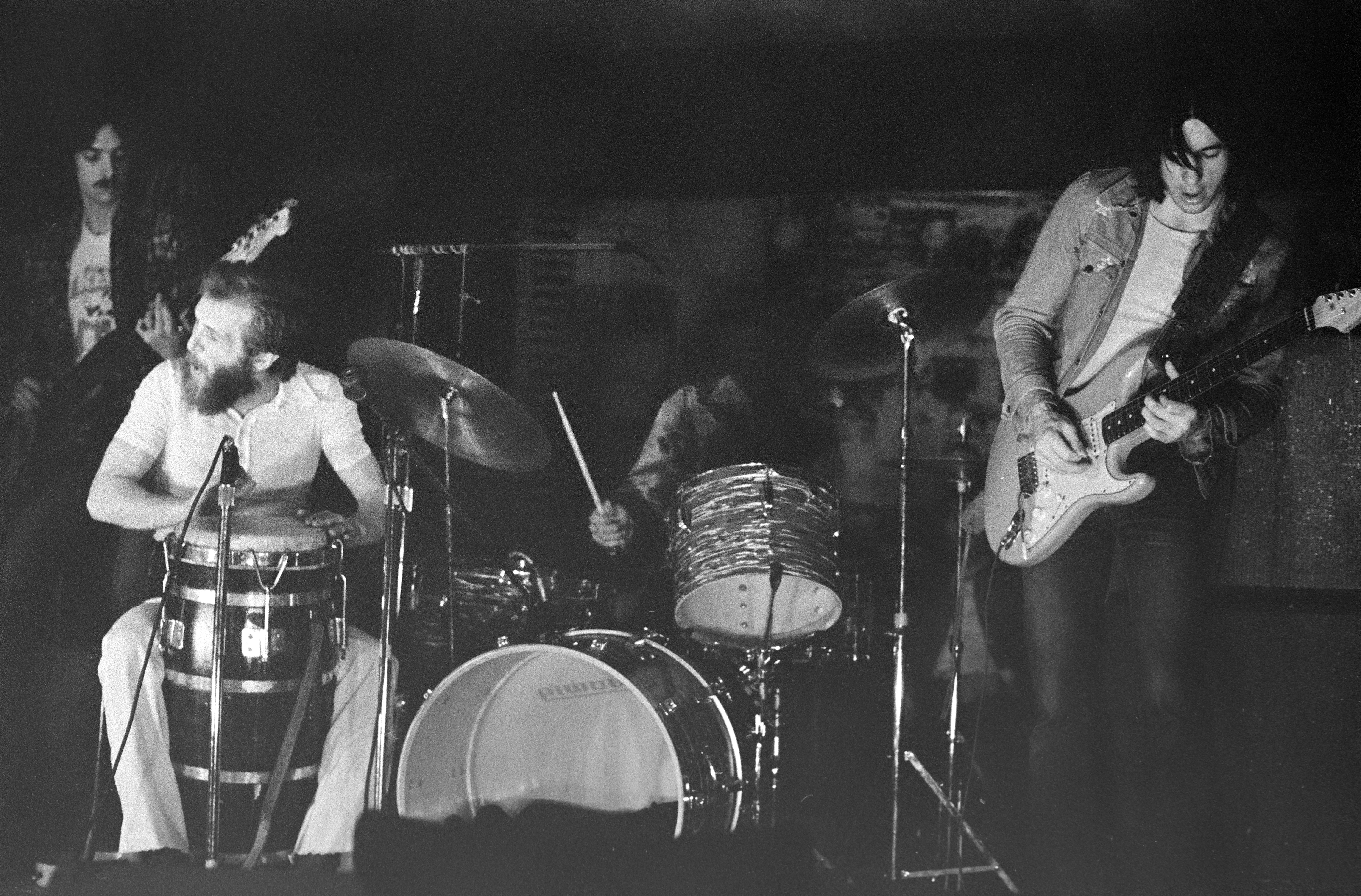 Dionysos, Quebec Rock Group, in 1973